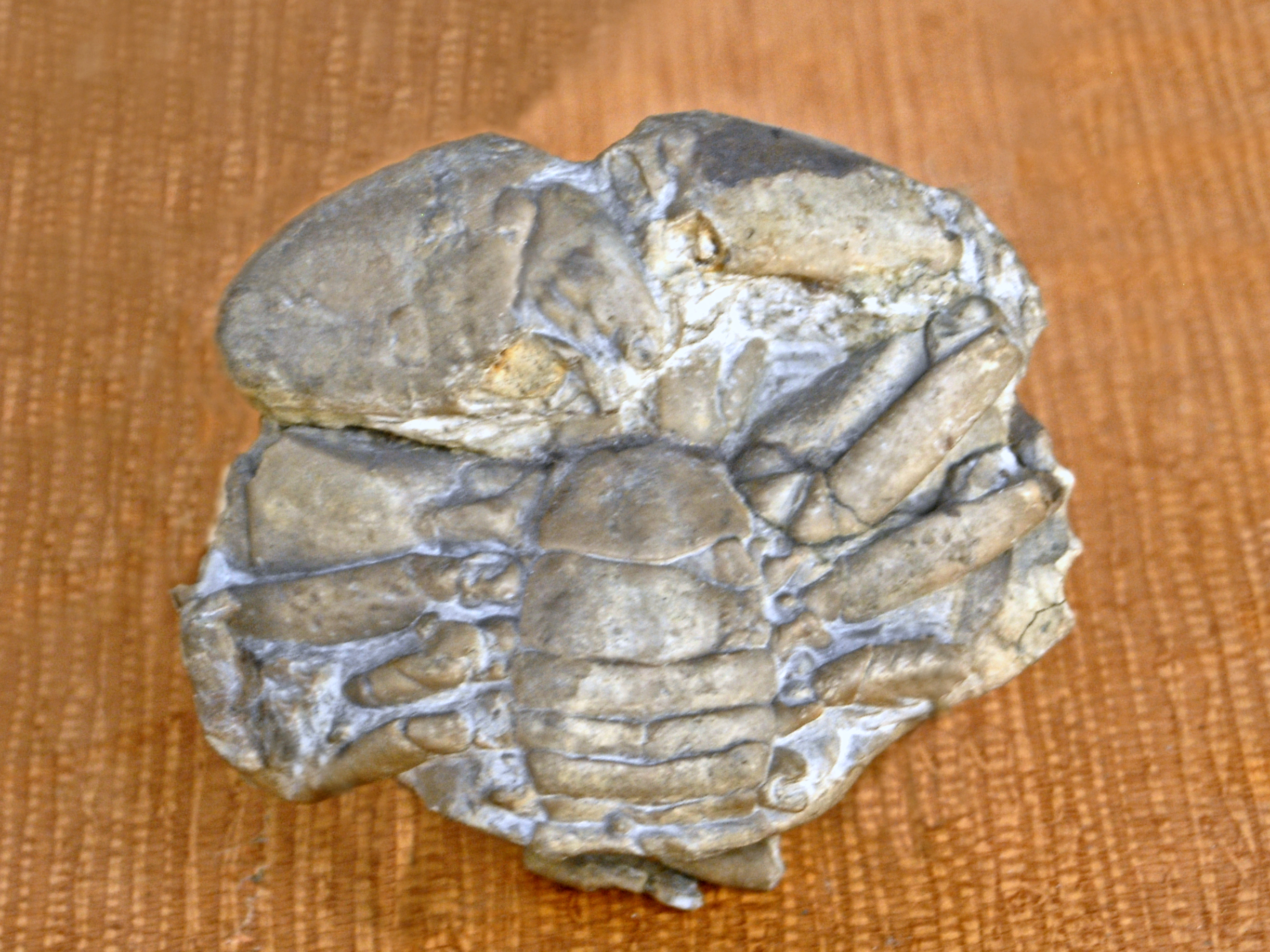 Paleocarpilius macrocheileus from Italy, on display at Gallery of Paleontology and Comparative Anatomy, Paris.